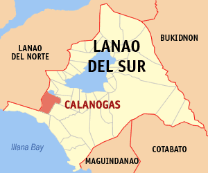 Map of the Lanao del Sur showing the location of Calanogas